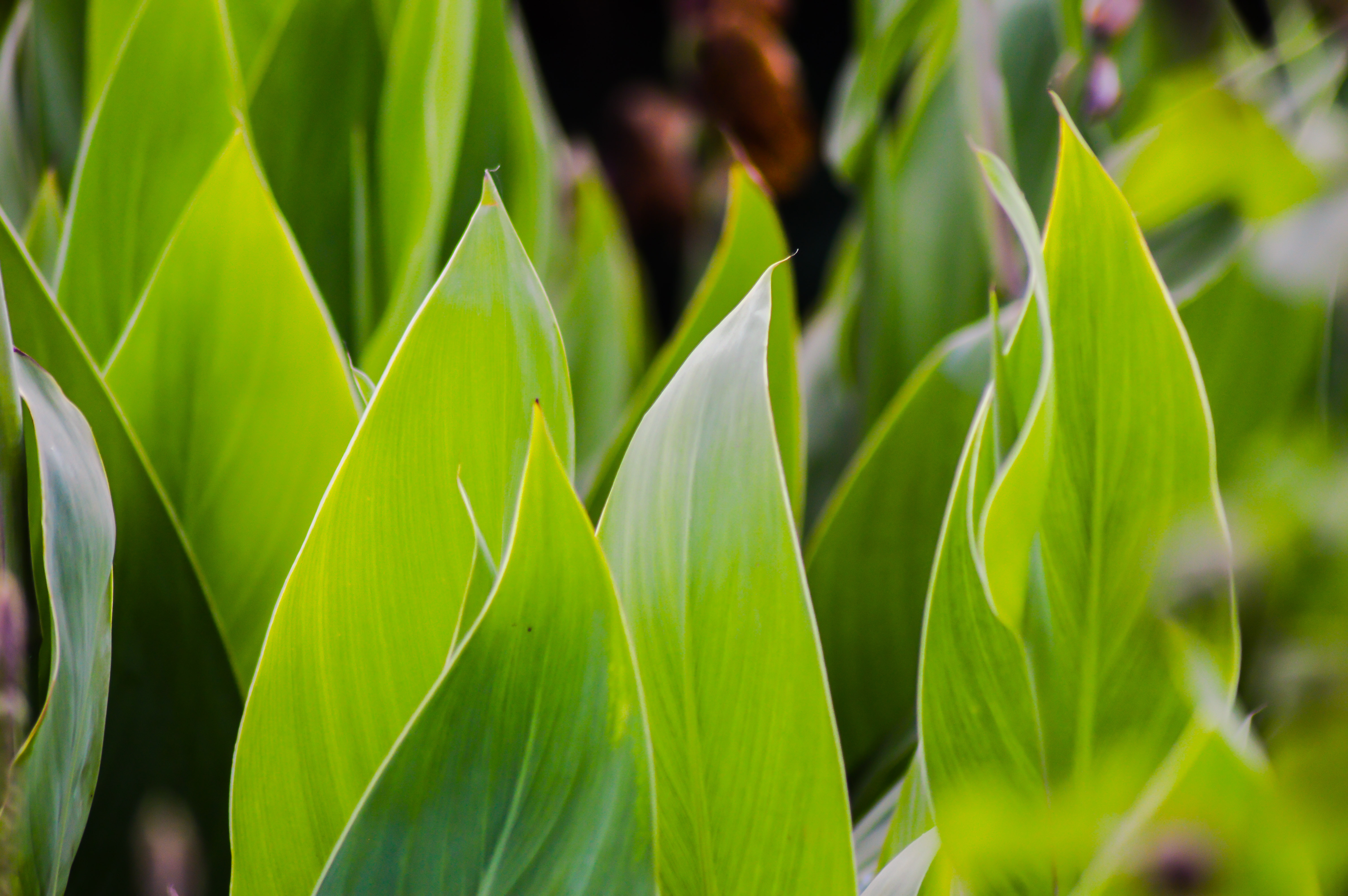 Canna indica Leafs taken in Guntur, Andhra Pradesh, India.